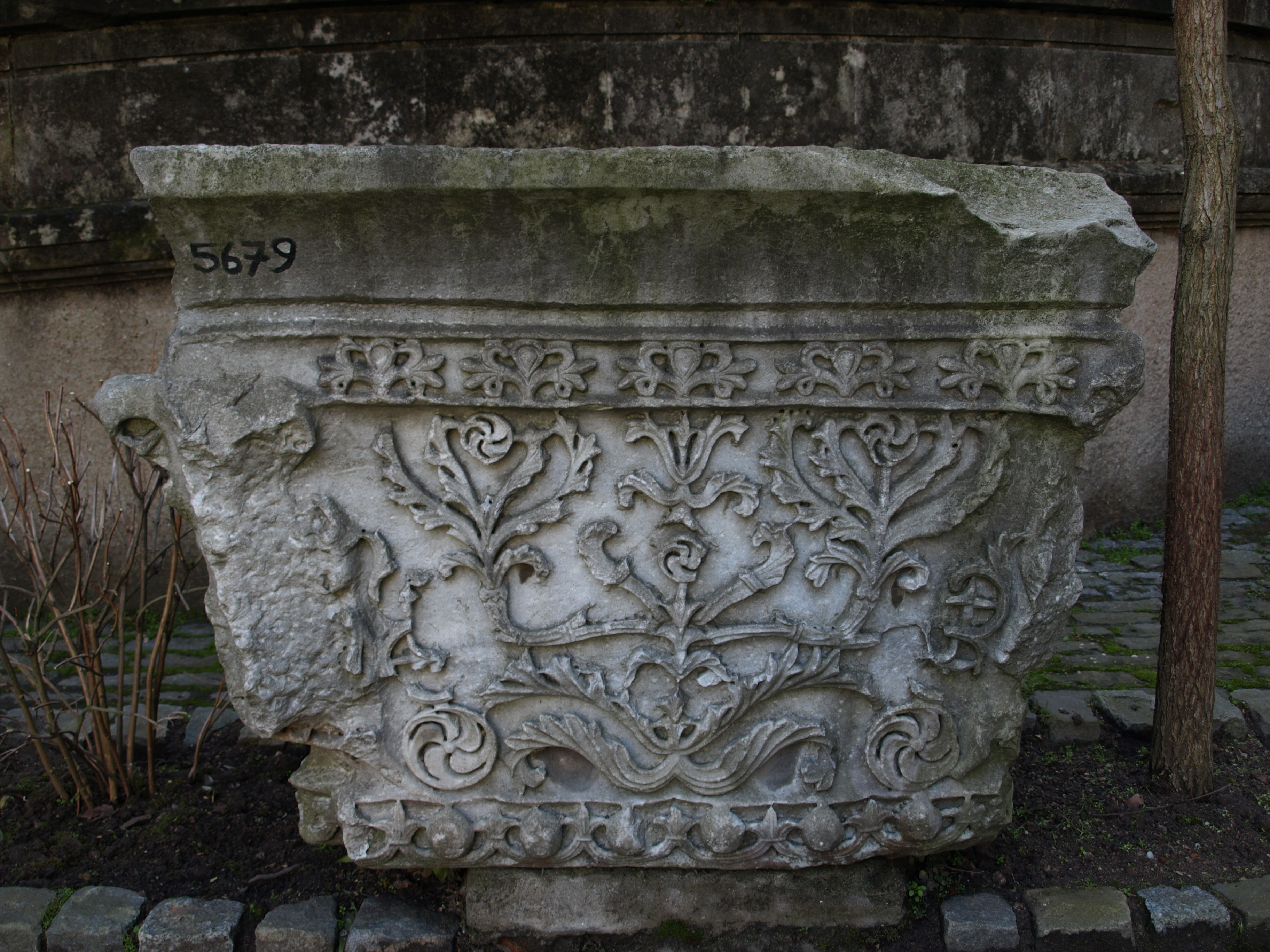 Pier capital from the church of St. Polyeuktos in Constantinople, in the Istanbul Archaeological Museum.